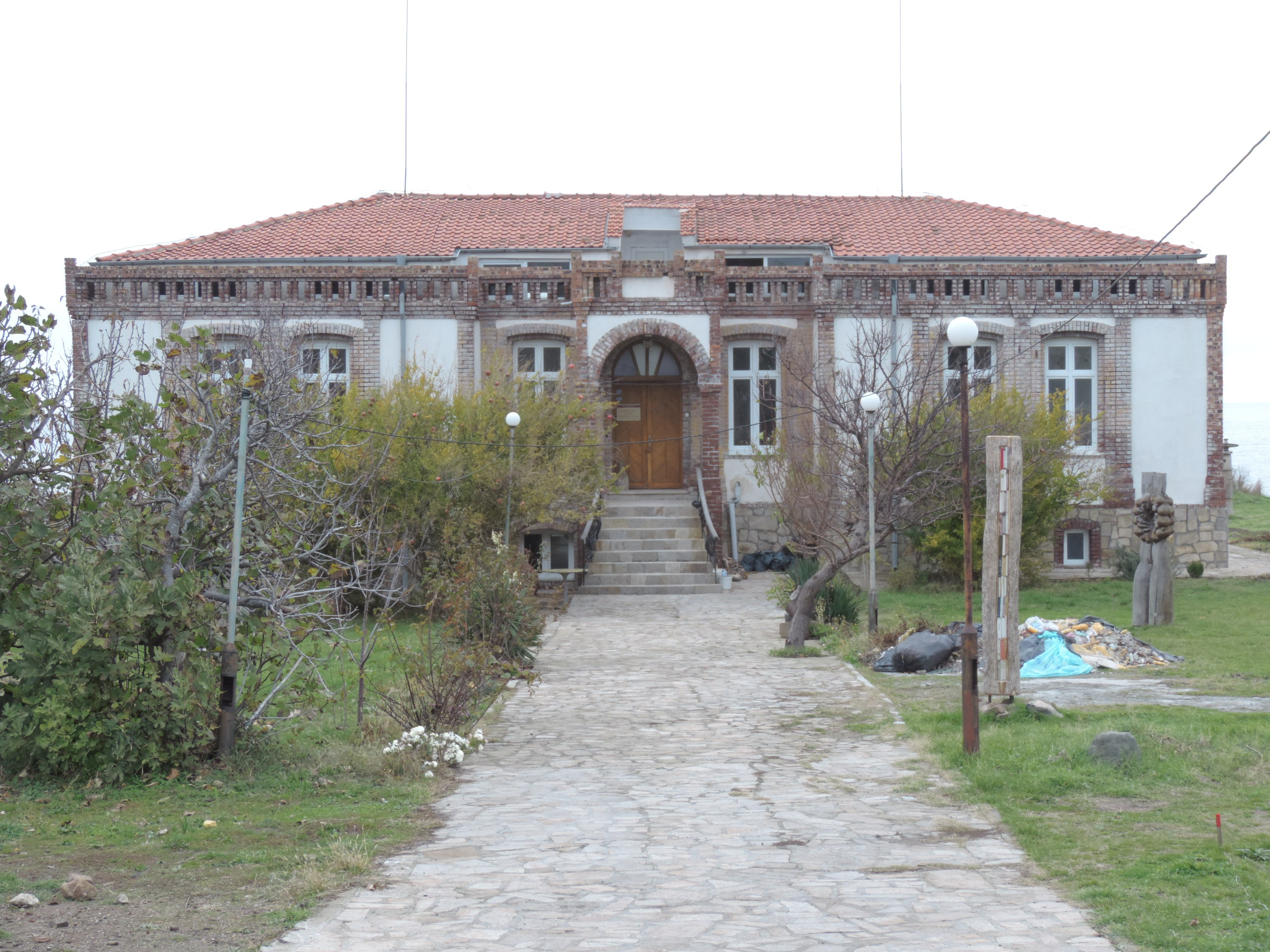 The building of the Greek School on the seashore, Ahtopol